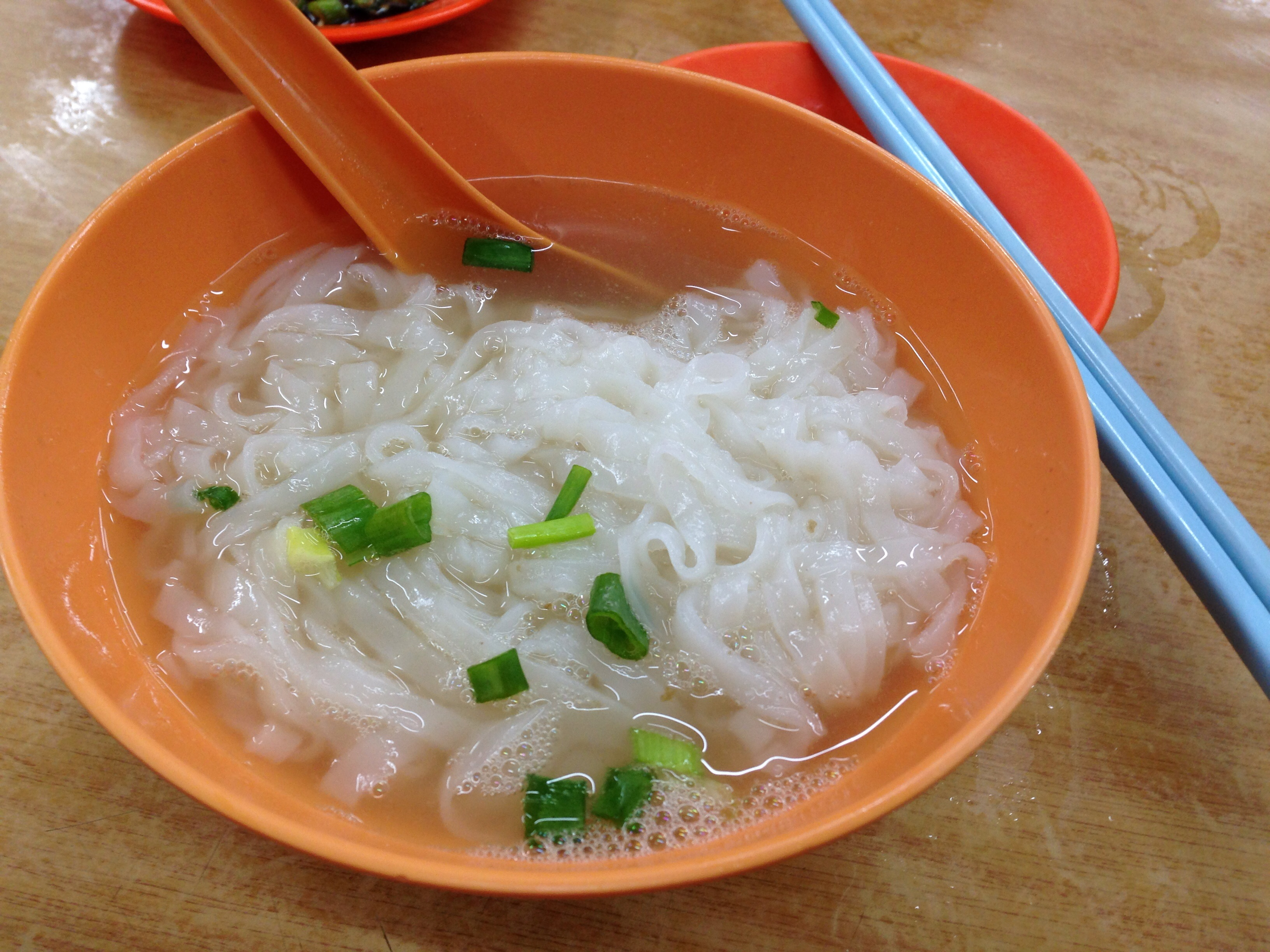 Sha Ho Fun in Ipoh